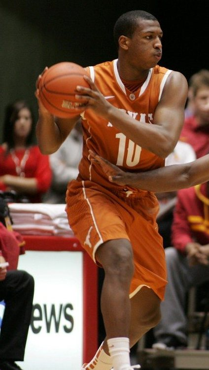 Jonathan Holmes (Texas) and Anthony Booker (Iowa State)